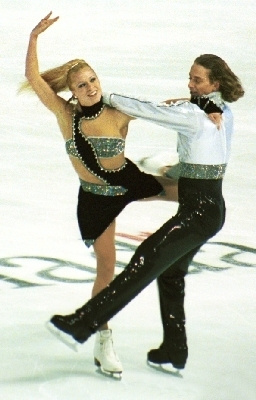 Shae Lynn Bourne and Viktor Kraatz perform a dance spin at the 2002 Grand Prix Final.